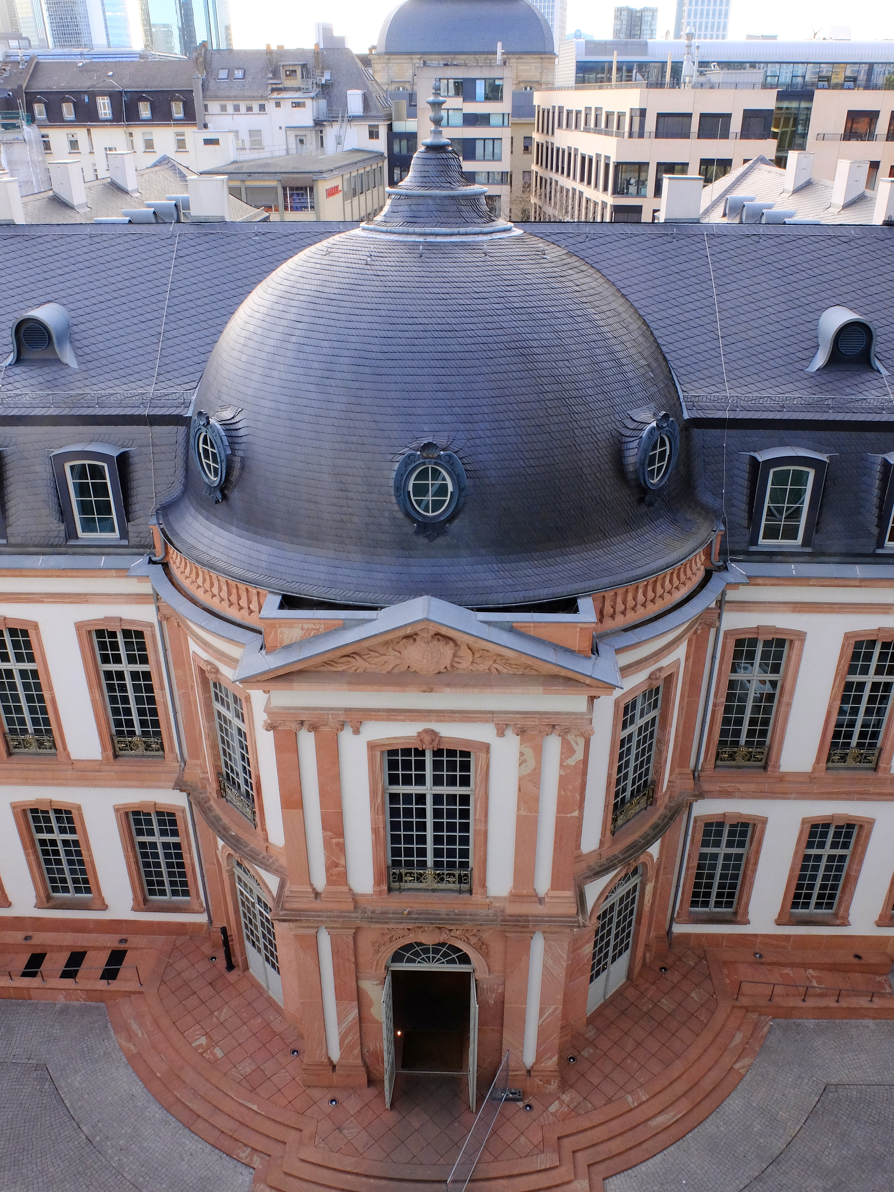 The newly build Palais Thurn und Taxis in Frankfurt, Germany.